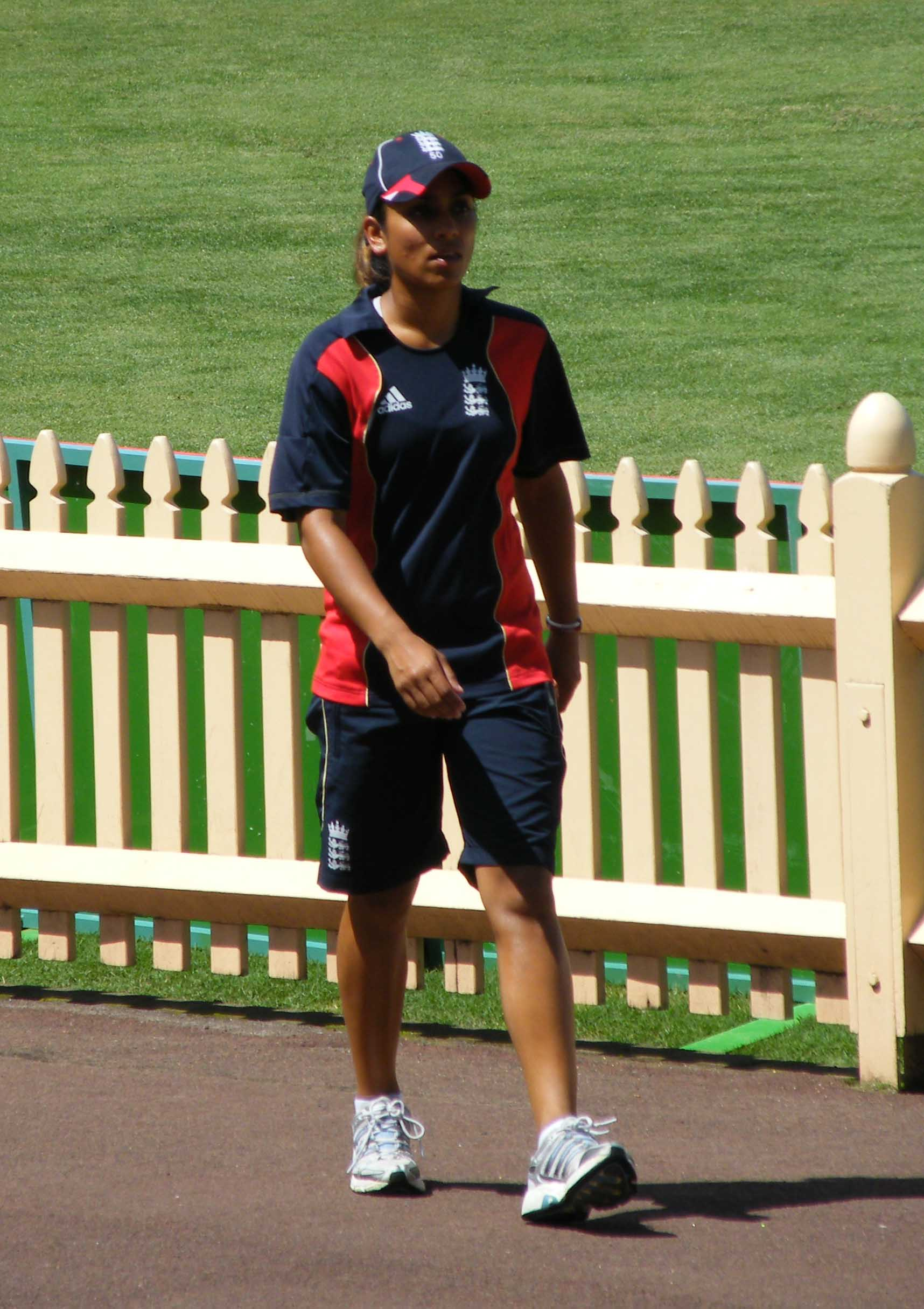 Isa Guha during the 2009 Women's Cricket World Cup